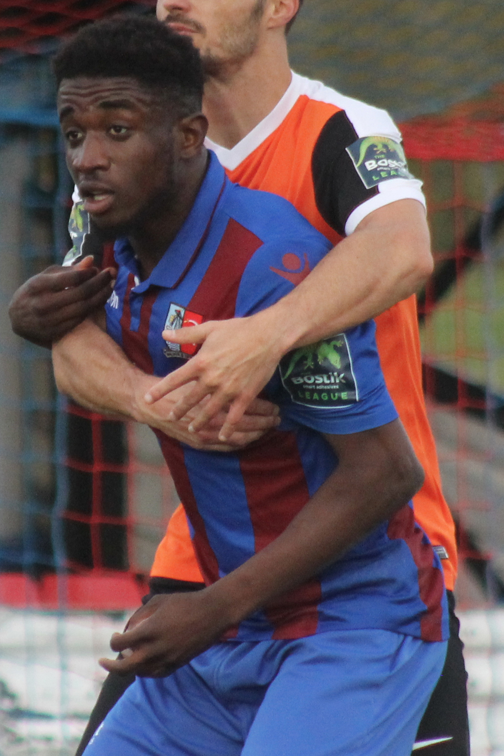 Junior Ogedi-Uzokwe in action for Maldon & Tiptree in an FA Trophy match against Walton Casuals in October 2017.